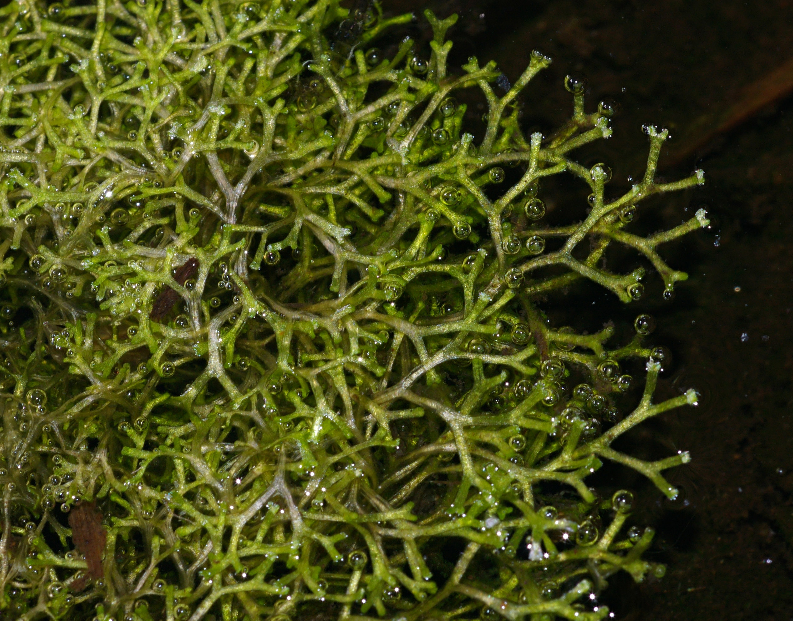 Close-up of the submerged liverwort Riccia fluitans agg.